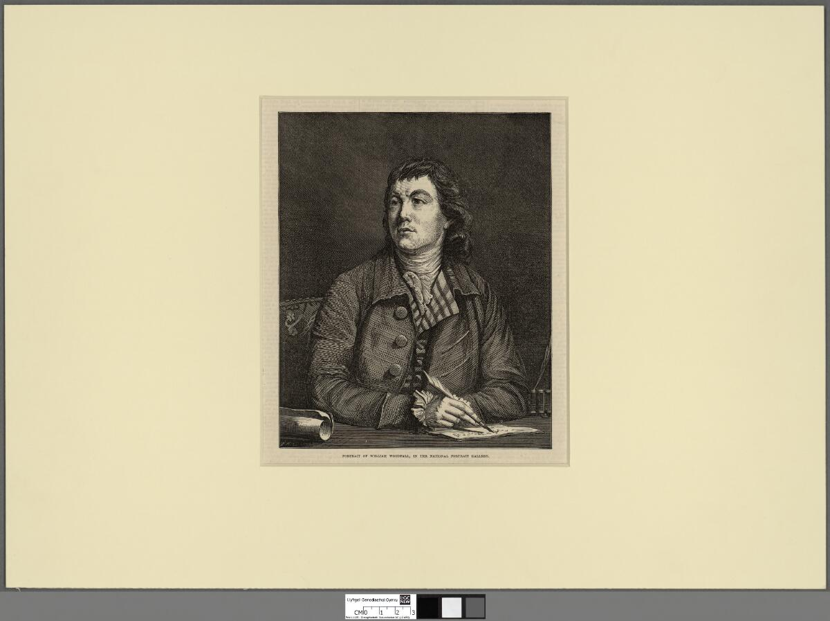 A portrait from the Welsh Portrait Collection at the National Library of Wales. Depicted person: William Woodfall – British printer